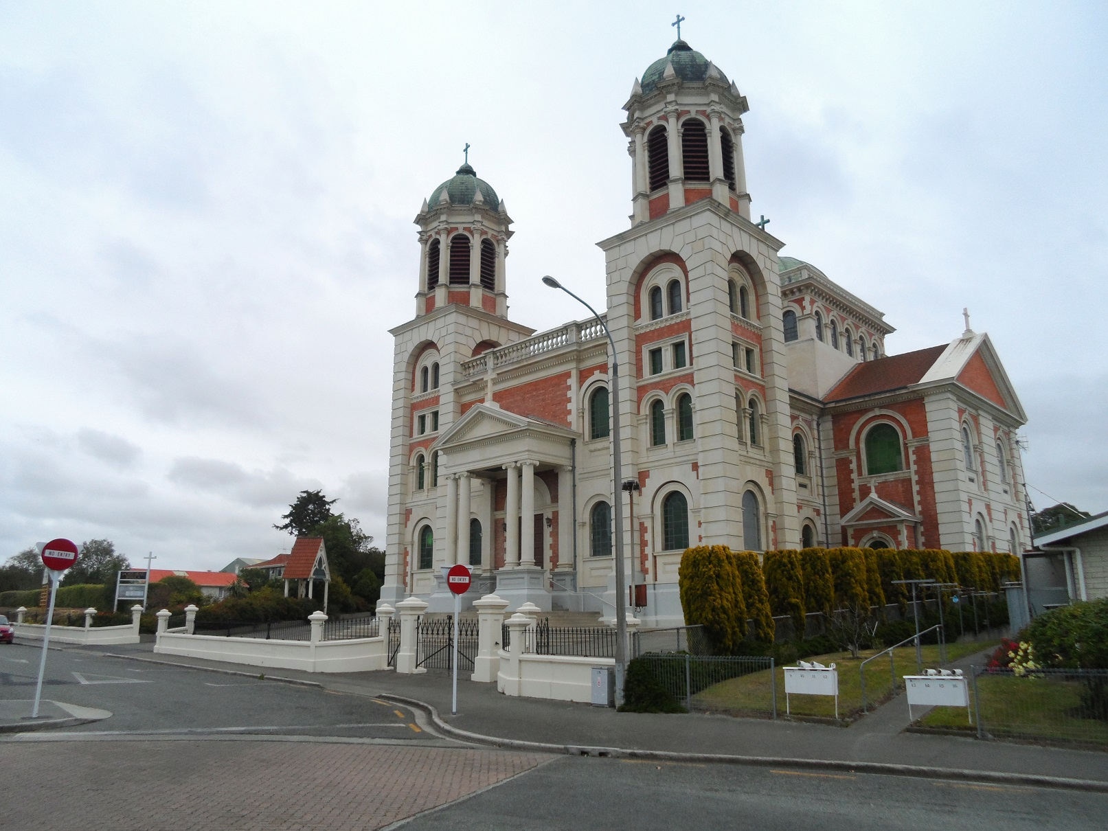 Front-side view of Sacred Heart Basilica, Catholic Church in Timaru in 2015.